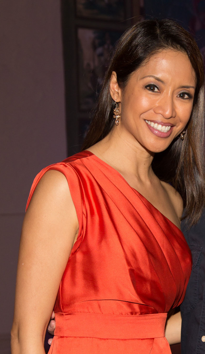 Pyrat Awards Night Party at Freedom Tower on March 9, 2013